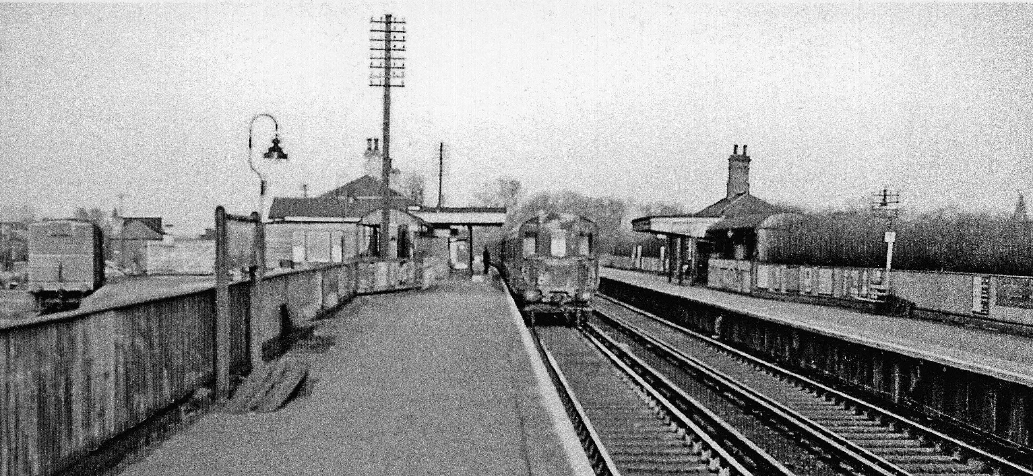 Bexley Station. View eastward, towards Dartford; London - Hither Green - Bexley - Dartford 'Loop' line.